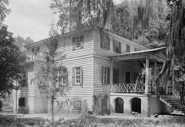 Lynch House, U.S. Routes 17 & 701, McClellanville vicinity (Charleston County, South Carolina) (cropped)